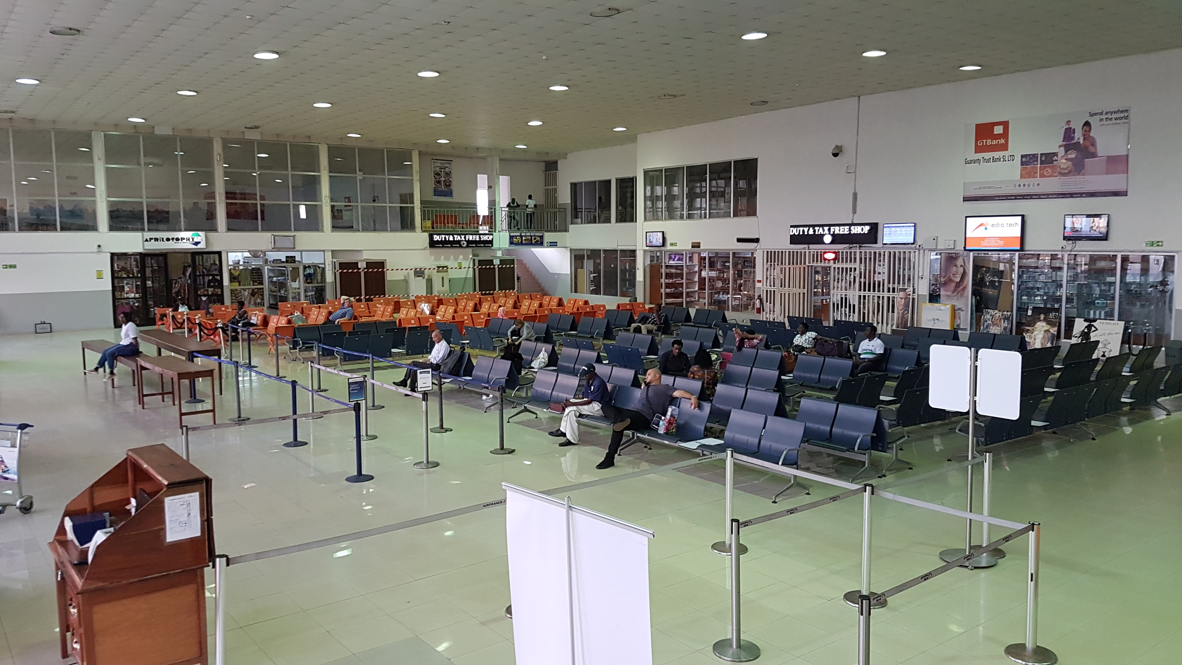 Waiting area at the gates at Lungi International Airport near Freetown, Sierra Leone. Taken on 15-Oct-2017.